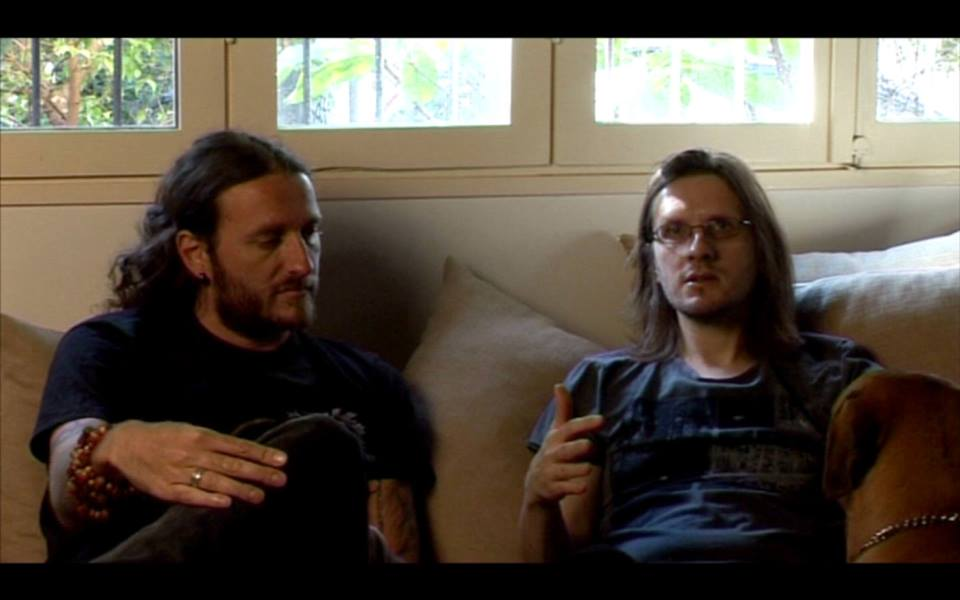 Kobi and Steven Interview